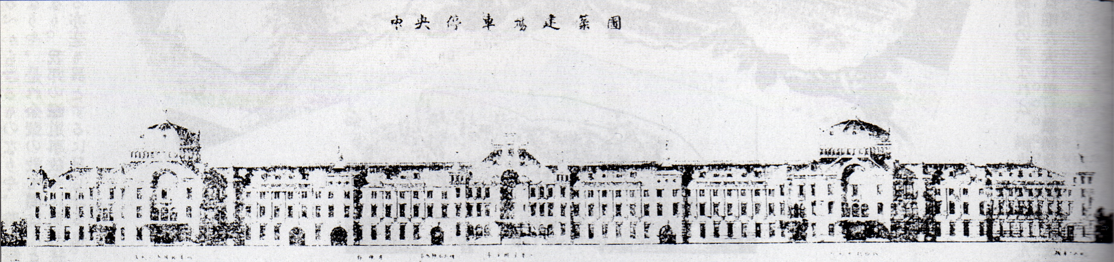 Third plan of Tokyo station building designed by TATSUNO Kingo.